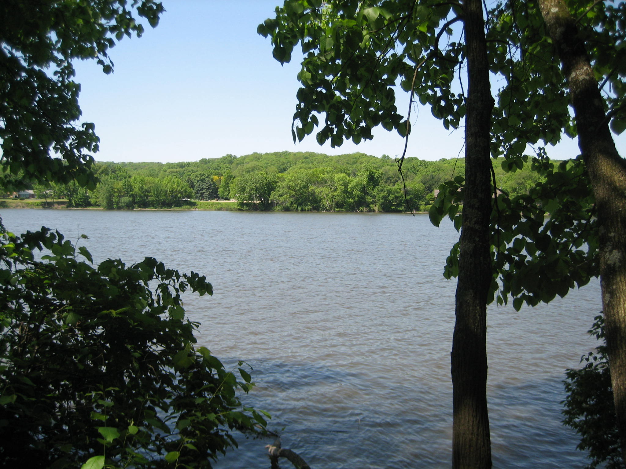 Lowden State Park, near Oregon, Illinois, USA. Rock River.